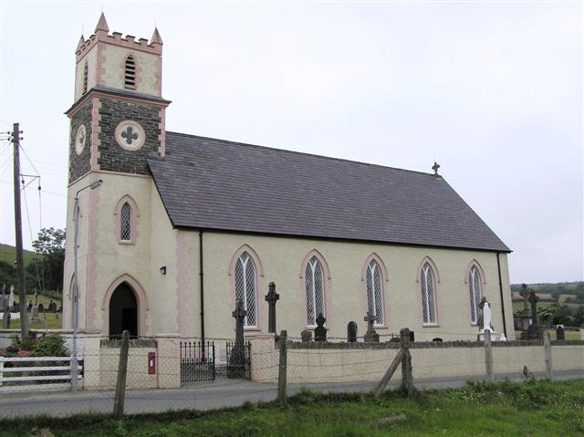 Glenmornan RC Church. Looking north-east